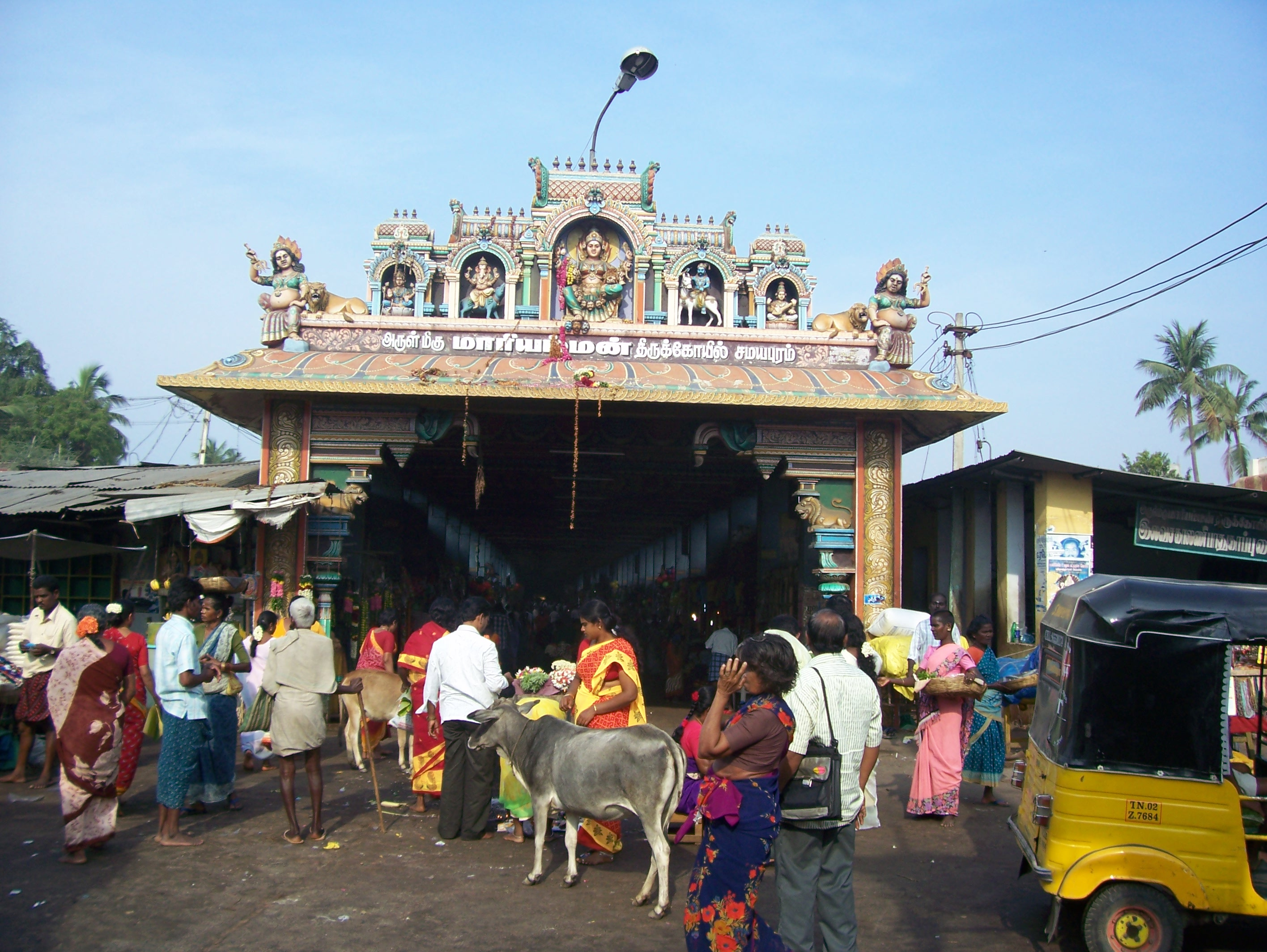 Entrance of the Samayapuram Mariyamman Temple at Samayapuram, Tiruchirappalli